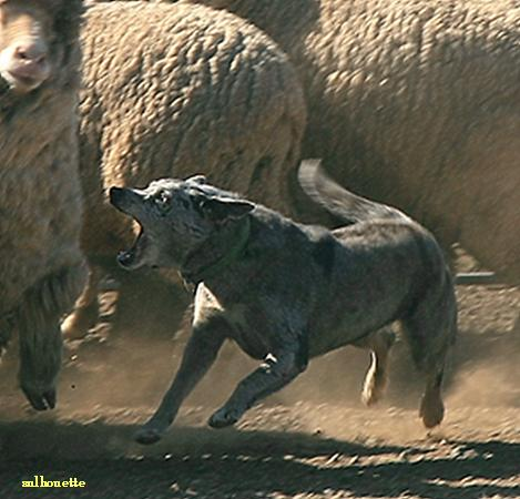 blue merle, smooth coat, no white, blocking sheep